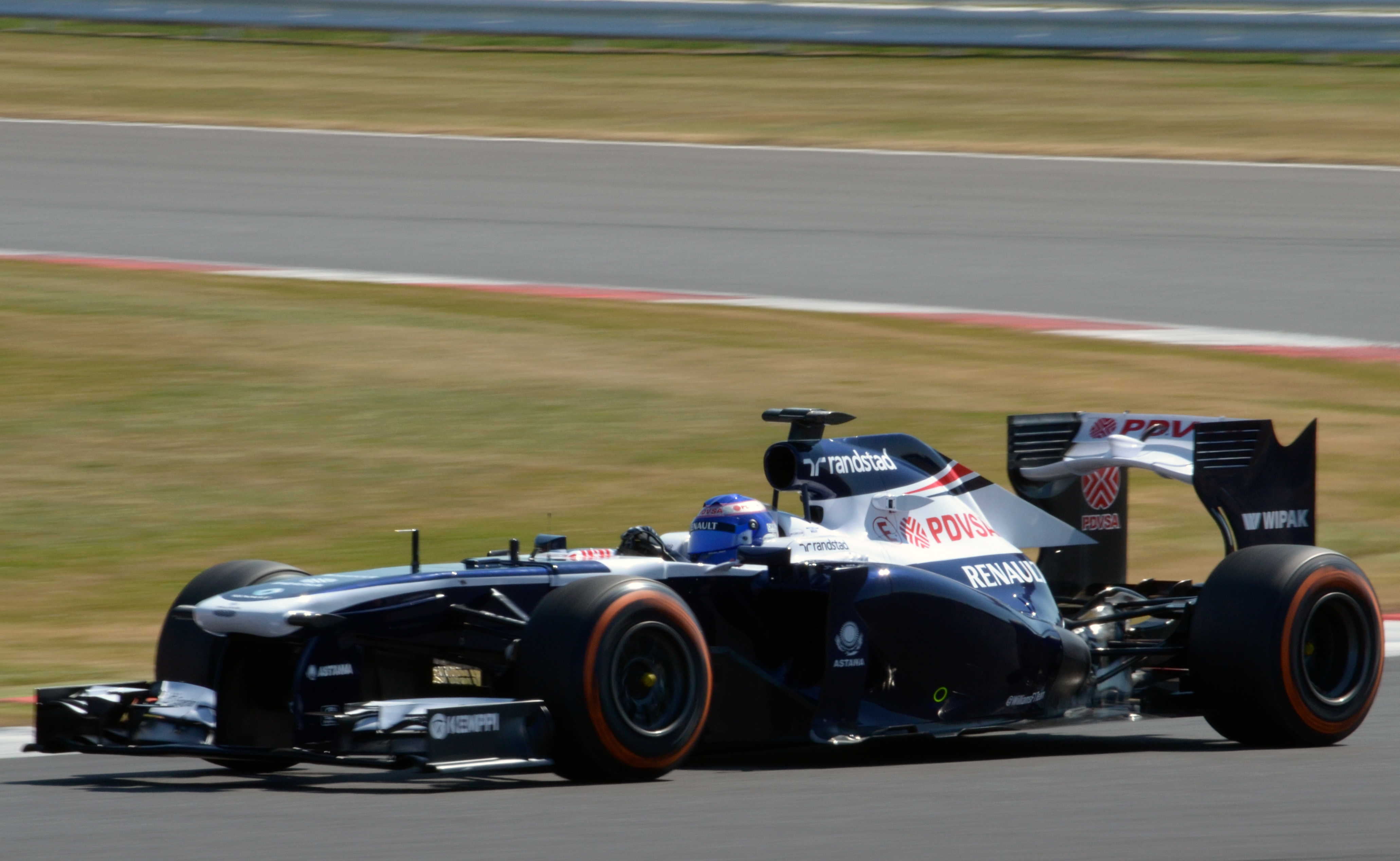 Susie Wolff driving the Williams Renault FW35 at the Young Drivers' Test at Silverstone on 19th July 2013. She posted the 9th fastest time of the day, 1m35.093s, after completing 89 laps.